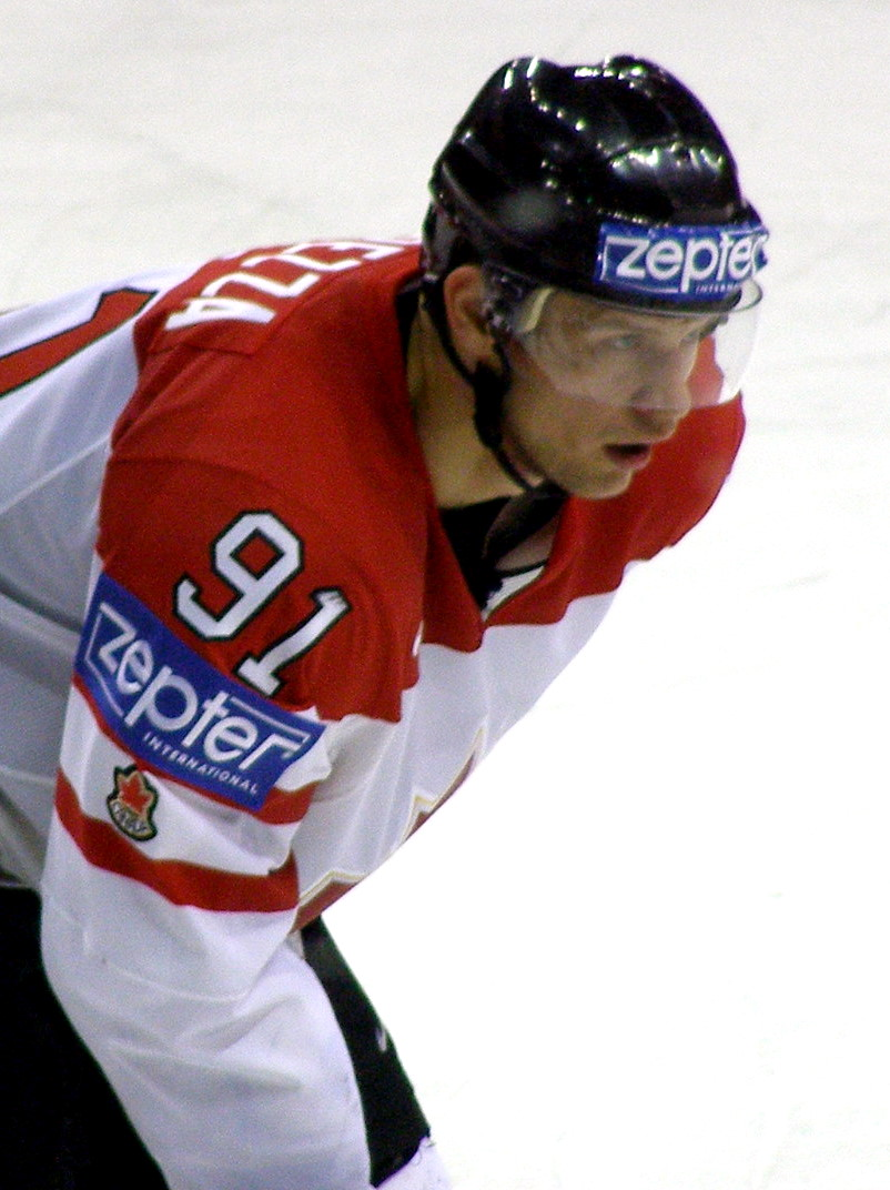 Canadian forward Jason Spezza during a game against Latvia at the IIHF World Hockey Championship in Halifax, NS, May 4, 2008.